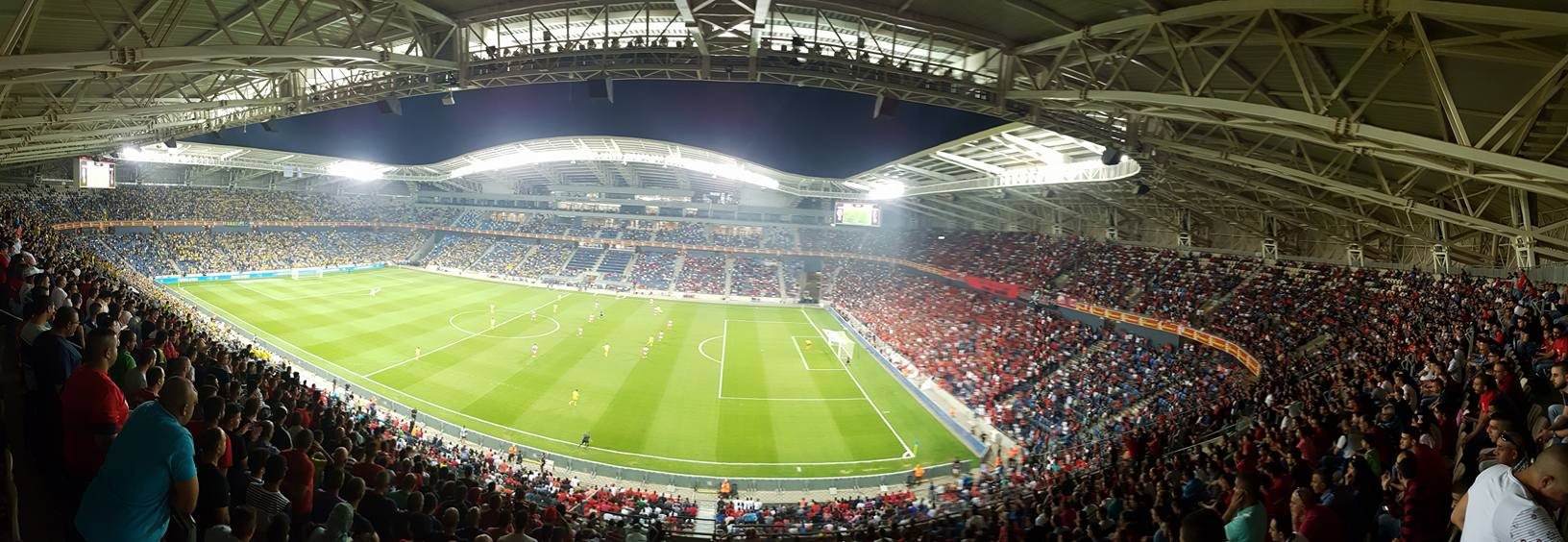 Sports in Israel